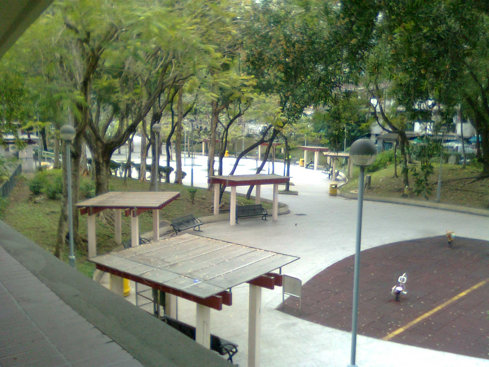 Hung Mui Kuk Road Playground viewed from footbridge ramp in Hung Mui Kuk Road.